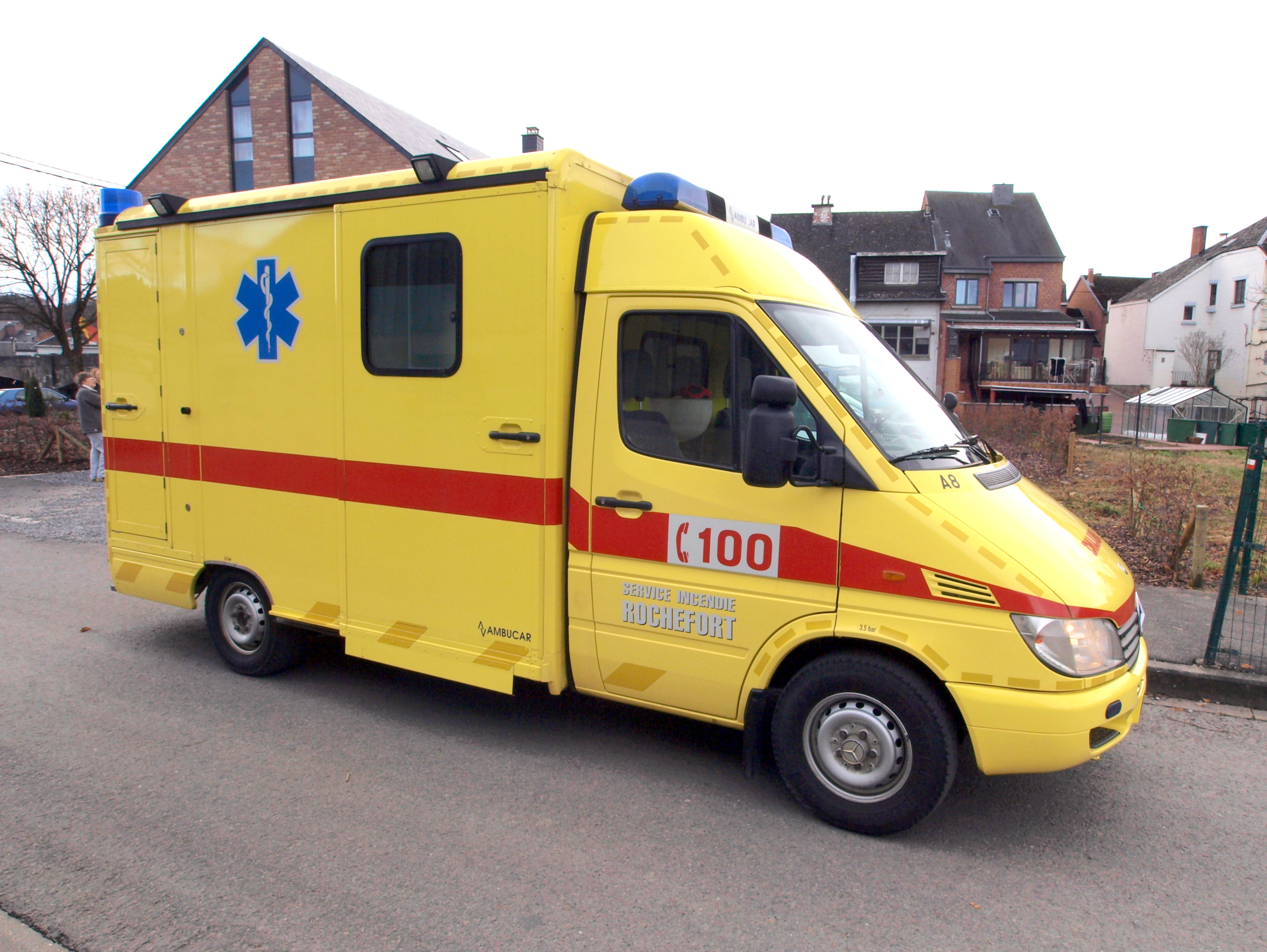 Photographed in Belgium.